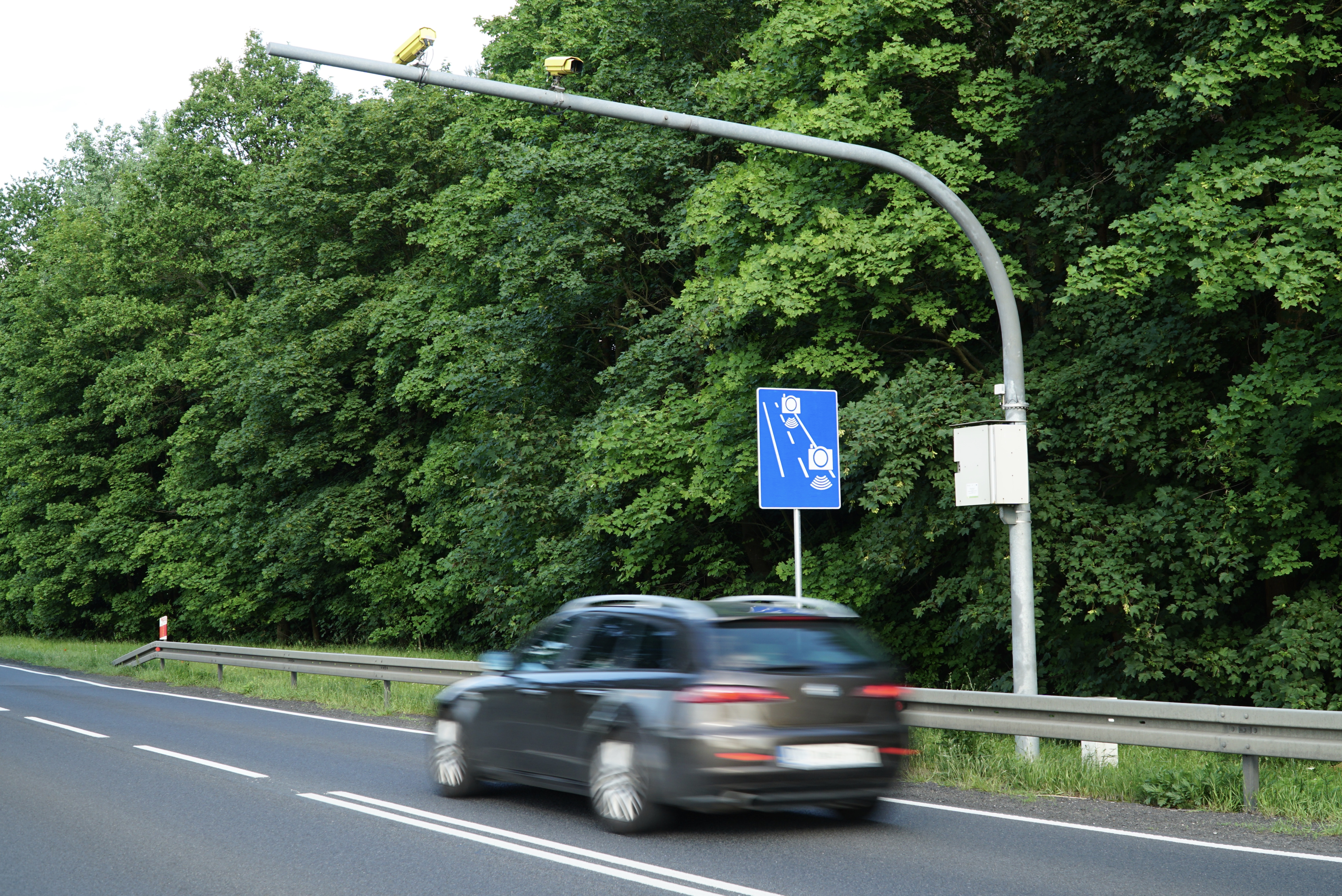 Section control for speed limit on a road near Poznan, Poland